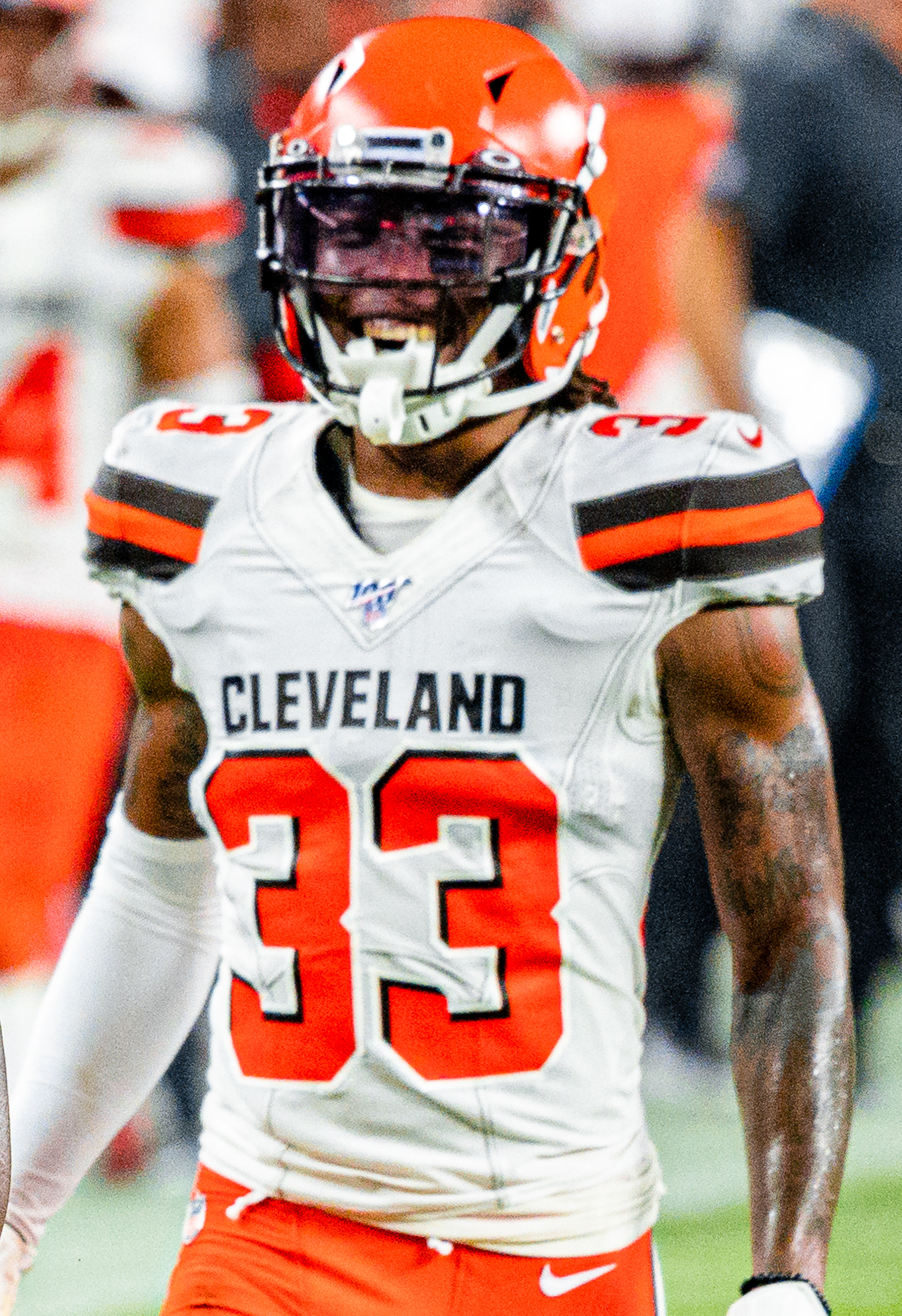 Greedy Williams